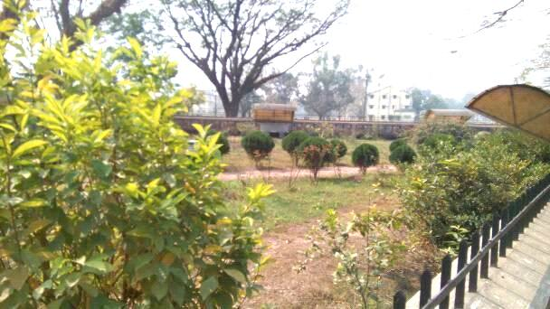 campus view of JGEC